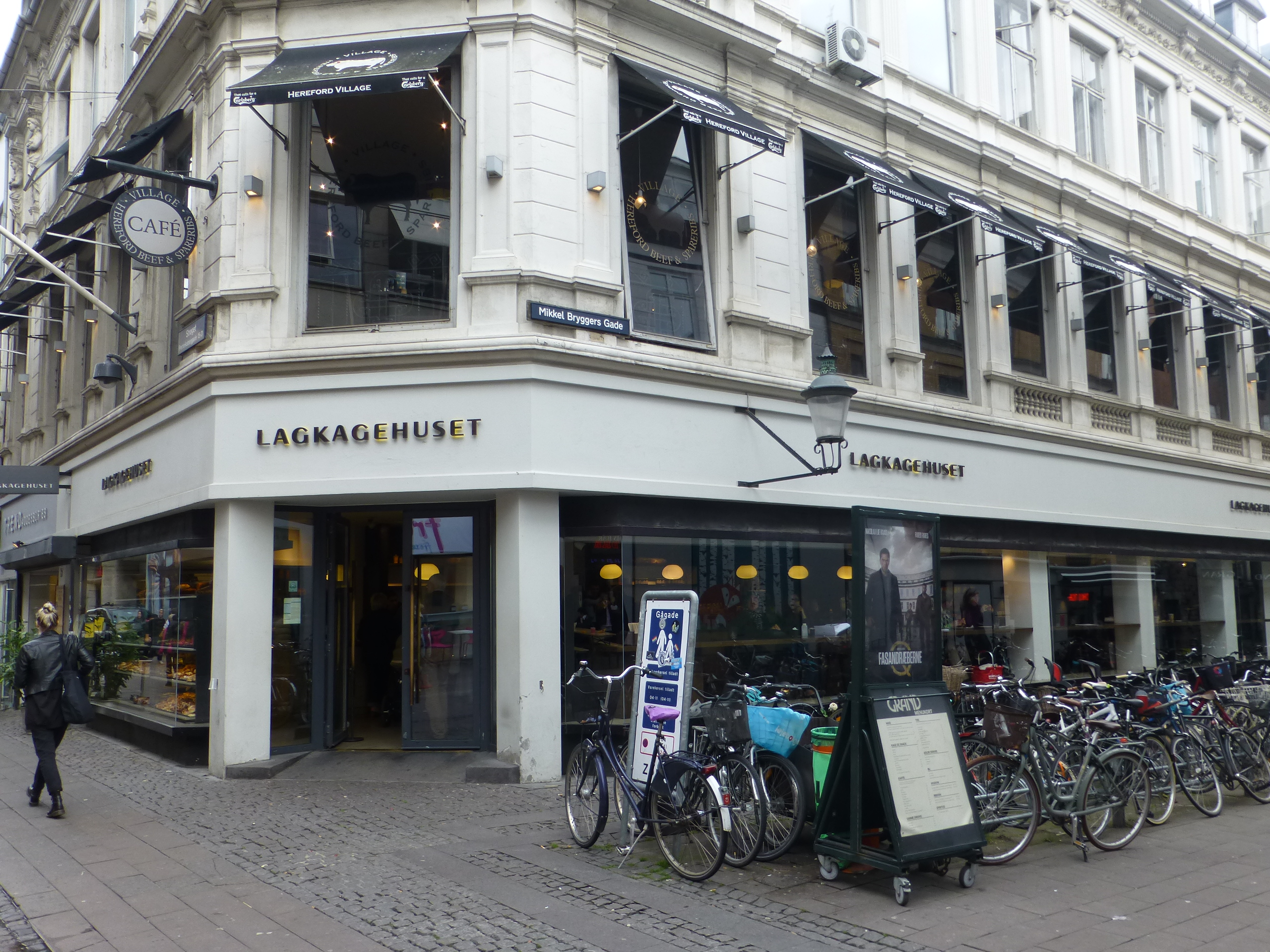 A filial of the Danish bakery chain Lagkagehuset at the corner of Frederiksberggade and Mikkel Bryggers Gade in Indre By in Copenhagen.